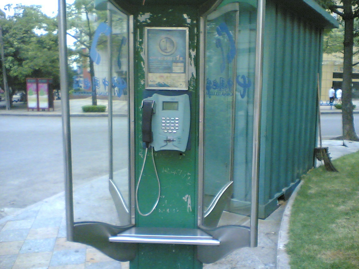 China Shenzhen Luo Hu District - phone booth - July 2005